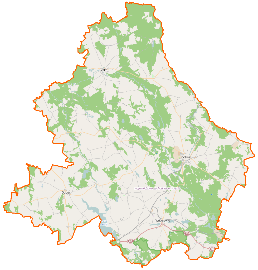 Map of Powiat łobeski, Poland This map of Powiat łobeski was created from OpenStreetMap project data, collected by the community. This map may be incomplete, and may contain errors. Don't rely solely on it for navigation.